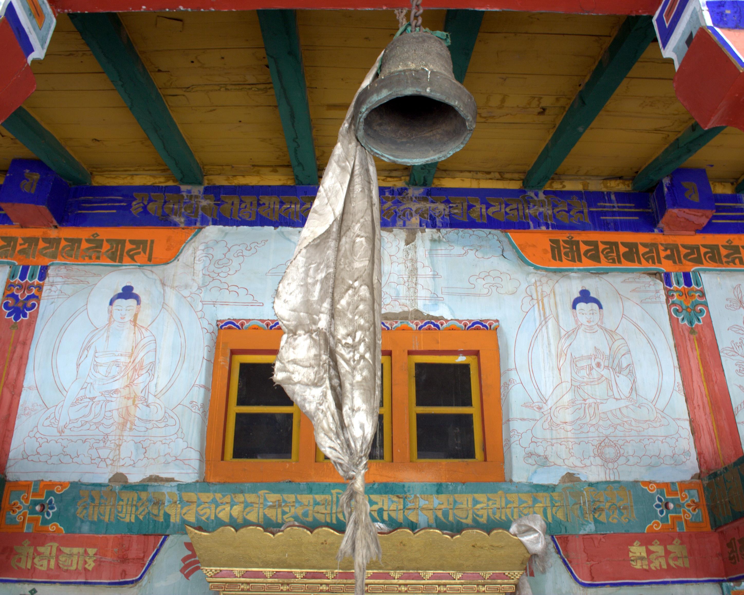 Samye Bell.